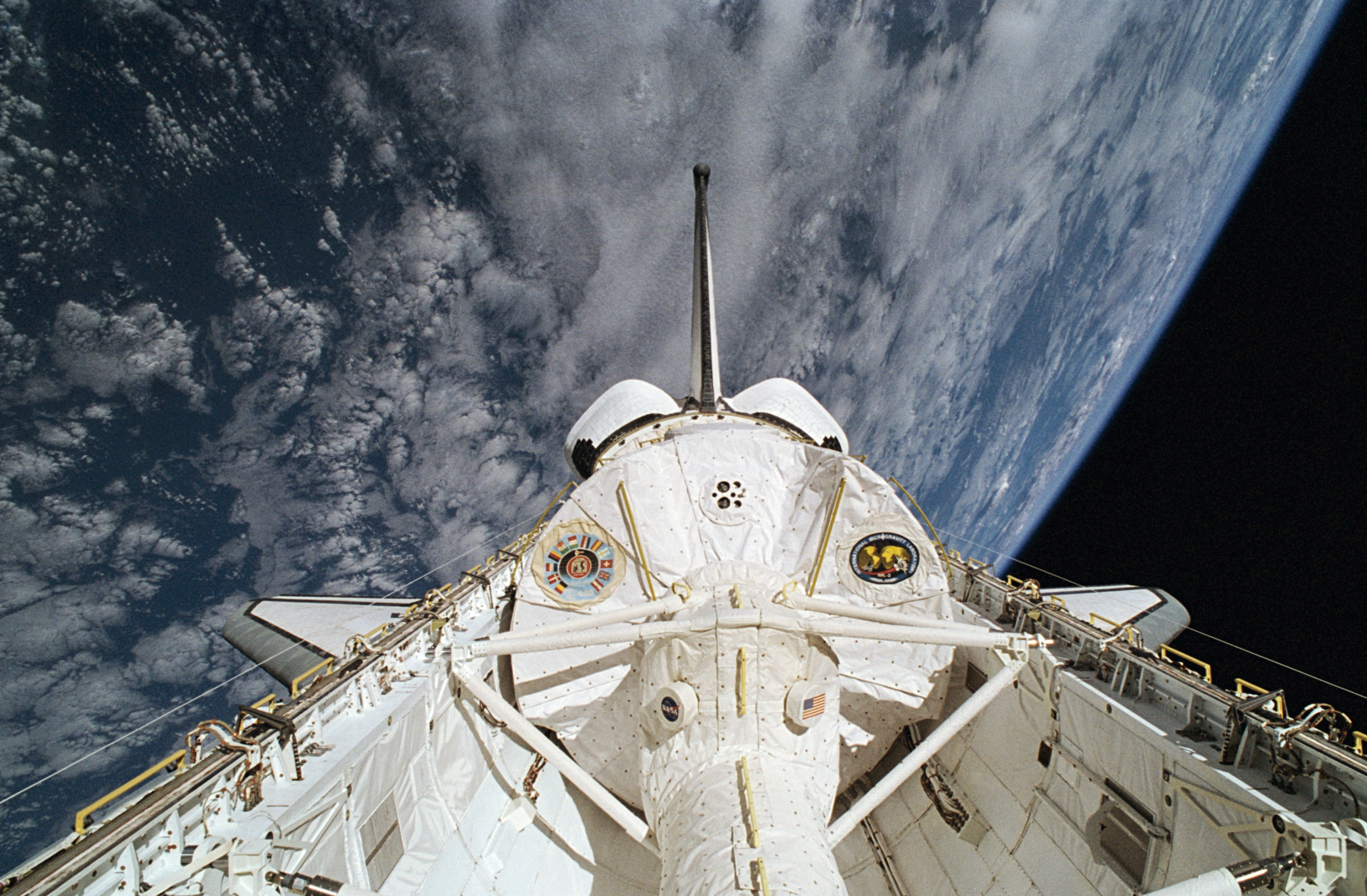 View of Columbia's payload bay showing Spacelab during STS-65.